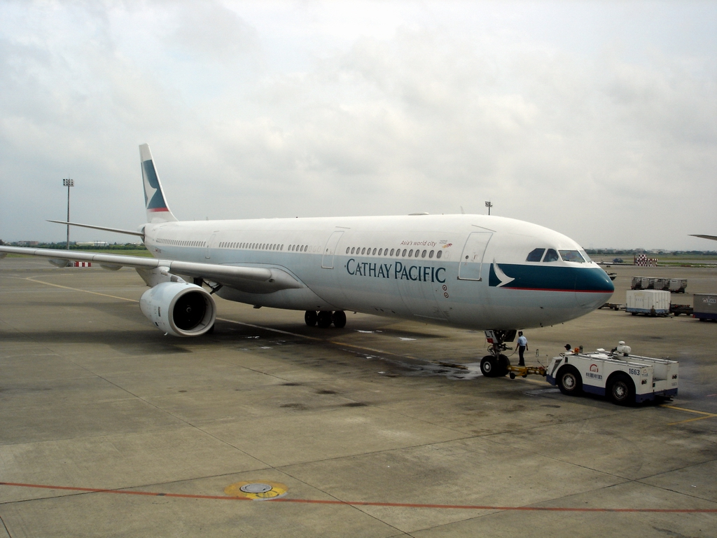 A Cathay Pacific Airbus A330 at Taipei's Chiang Kai-shek International Airport.